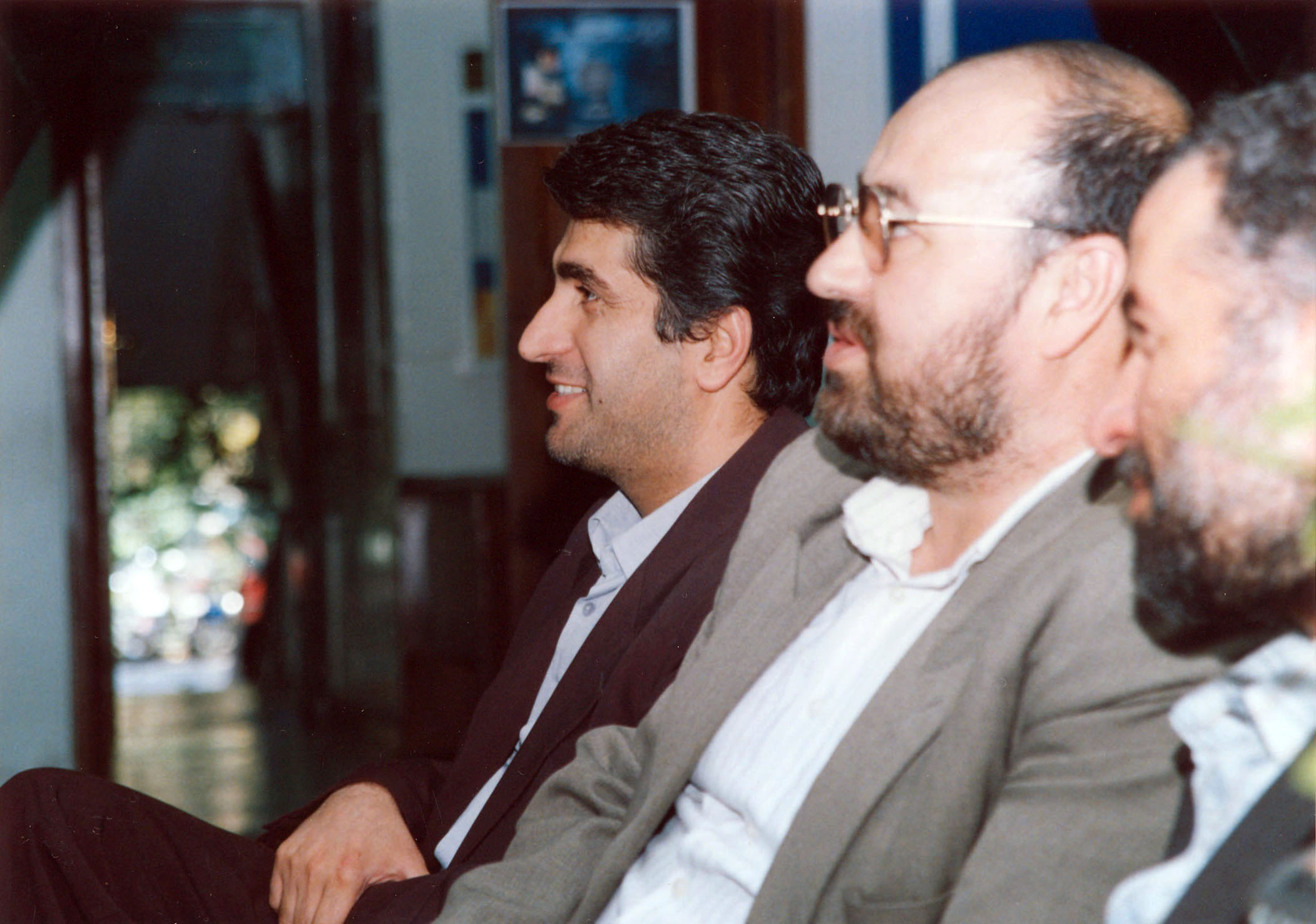 Taken during an event in Tehran where members of the Ministry of Cooperatives and other government bodies attended.